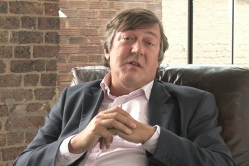 Image of Stephen Fry